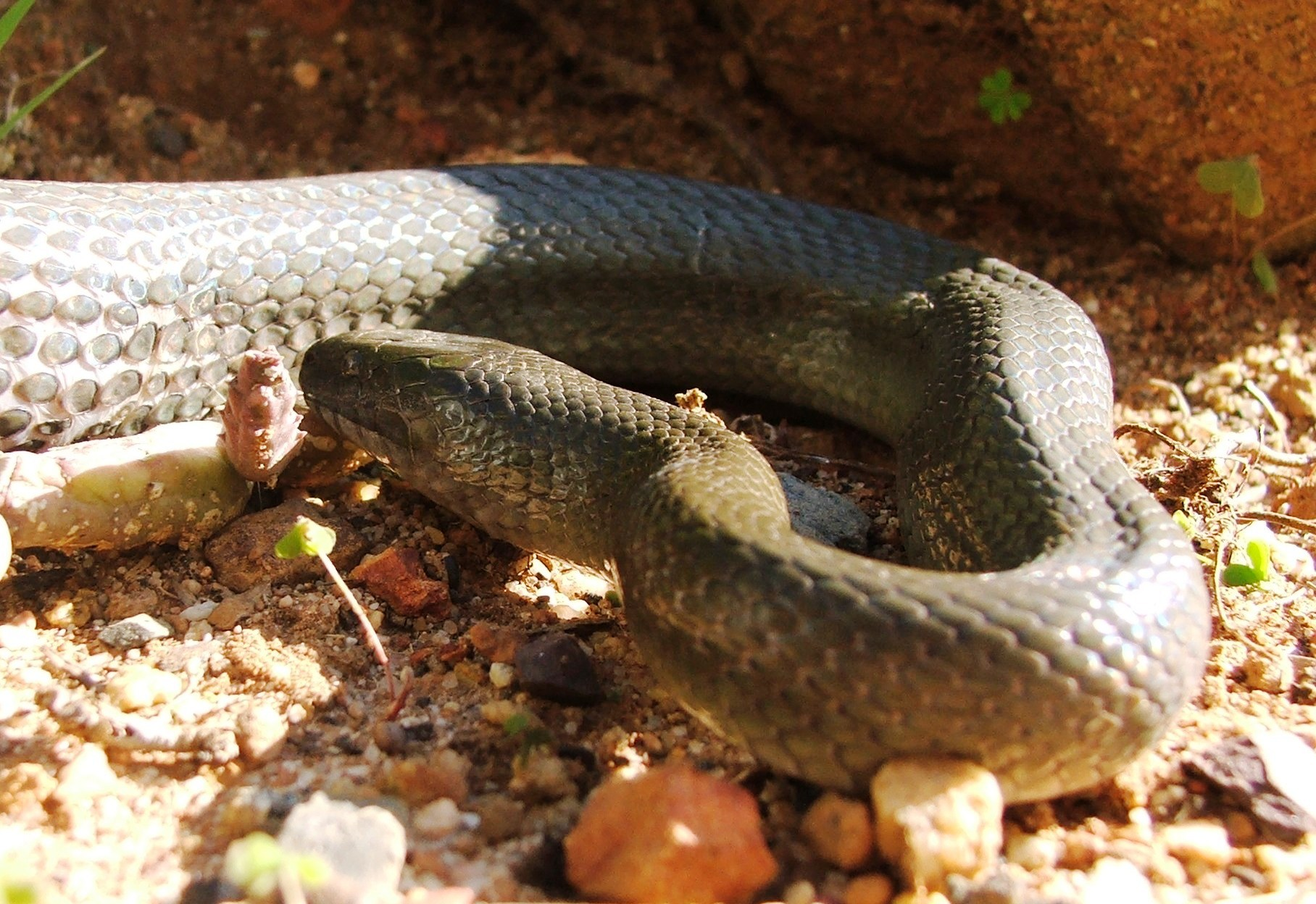 The Brown Water Snake of Cape Town. Lycodonomorphus rufulus.